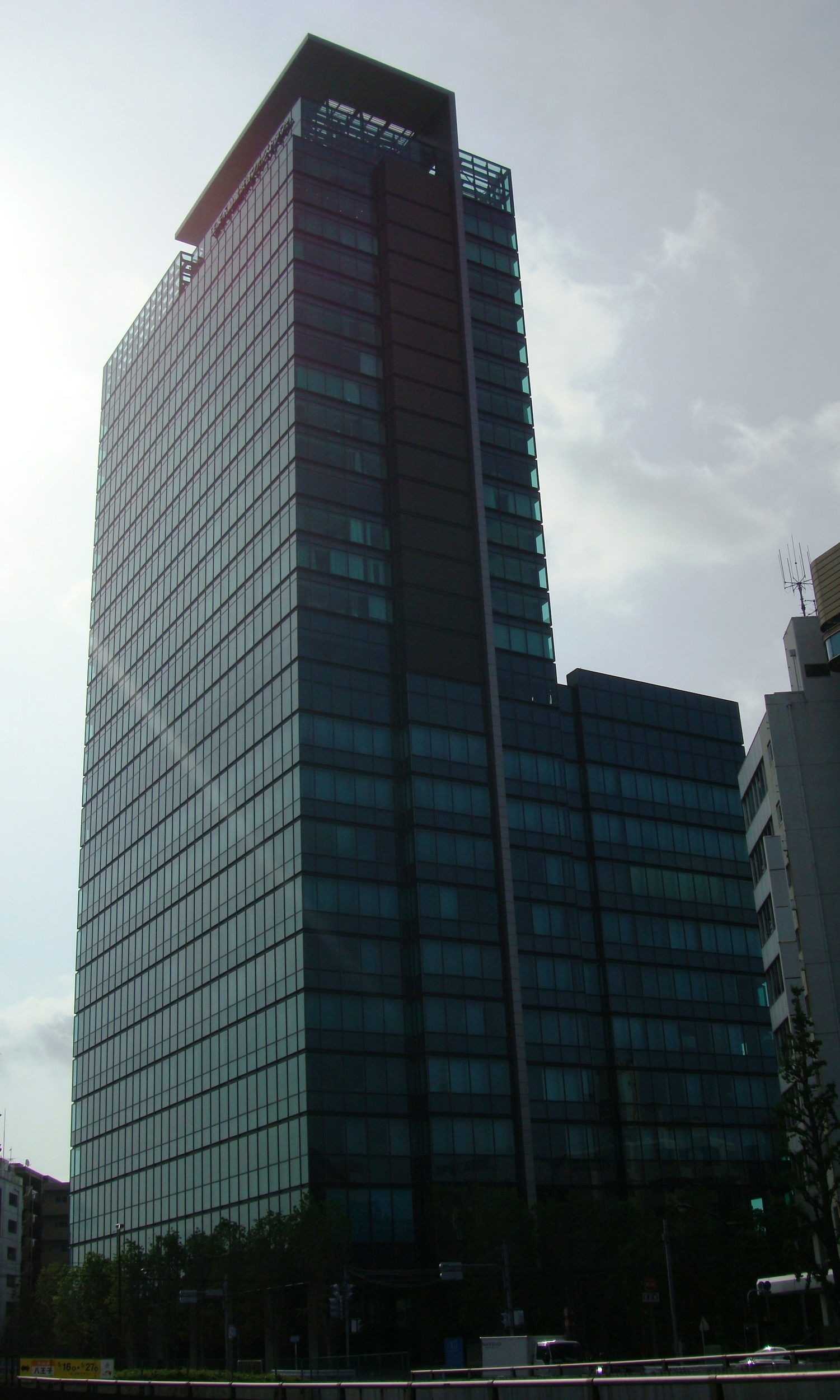 Shibuya First Tower, Shibuya, Tokyo